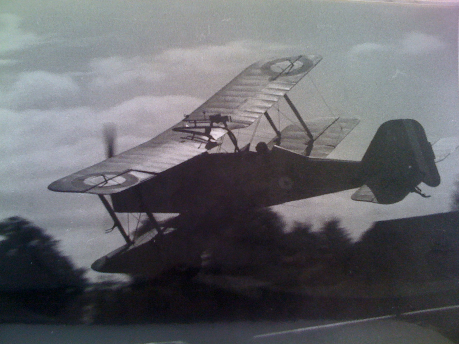 Replica SE5 from Lynn Garrison's collection 5 seconds before fatal crash of Charles Boddinton, during filming of Roger Corman's film Von Richthofen & Brown in Weston Aerodrome, Liexlip, Ireland.